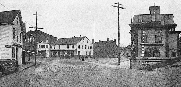 View of Sullivan Square, Berwick, Maine